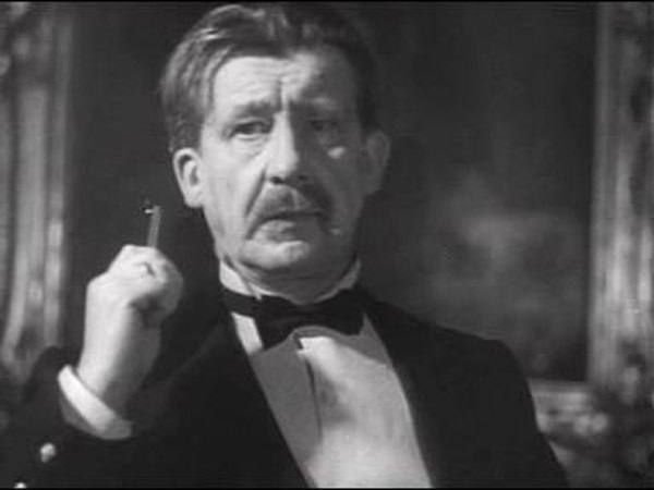 Aleksandr Larikov as Nevyrazimov in Chelovek v futlyare (1939)